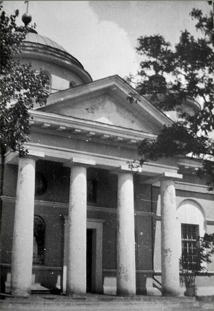 St. Sophia church in Kamianka (Stratilatovka), Sumski ujezd